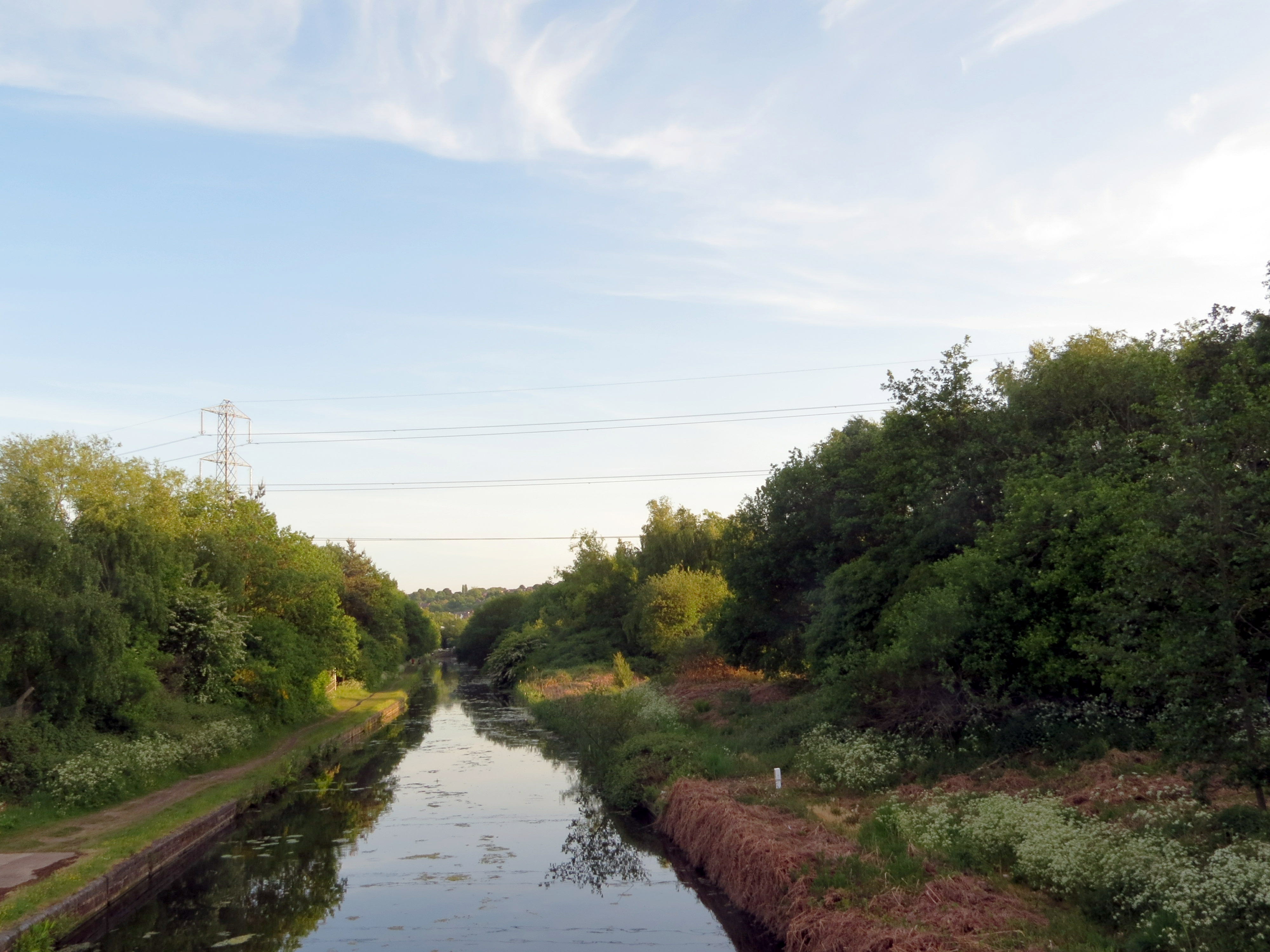 Picture taken from bridge on the Birmingham and Wolverhampton New Mainline canal at Albion Junction looking southwards along the length of the Gower Branch.